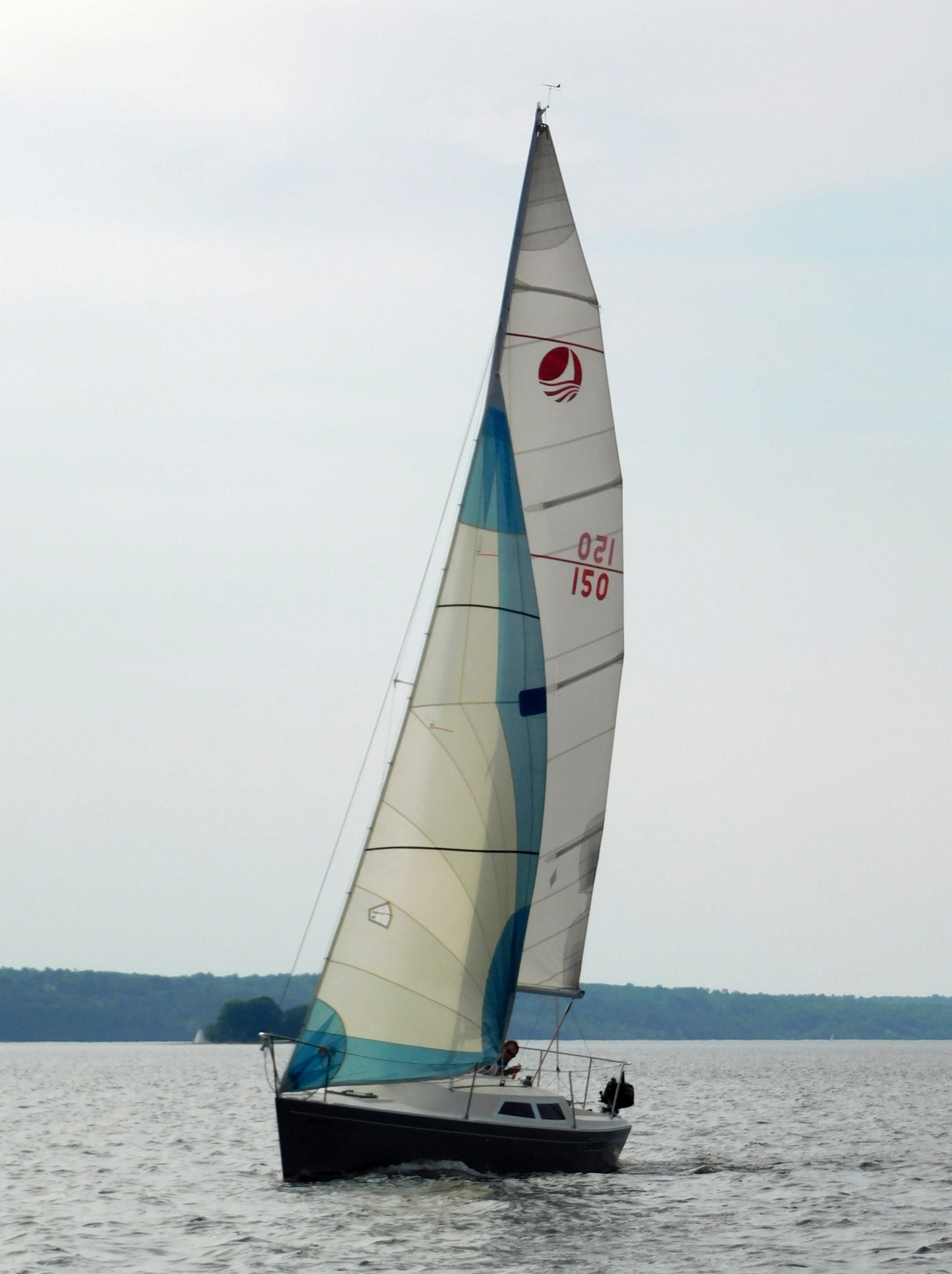 A Bombardier 7.6 sailboat named Silverback.